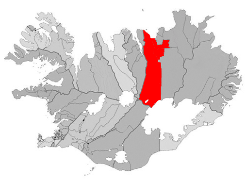 Based on Municipalities of Iceland.png.